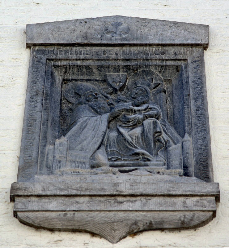 St Nicolaas - Plankstraat 23, Maastricht, The Netherlands. By Charles Vos, 1951.